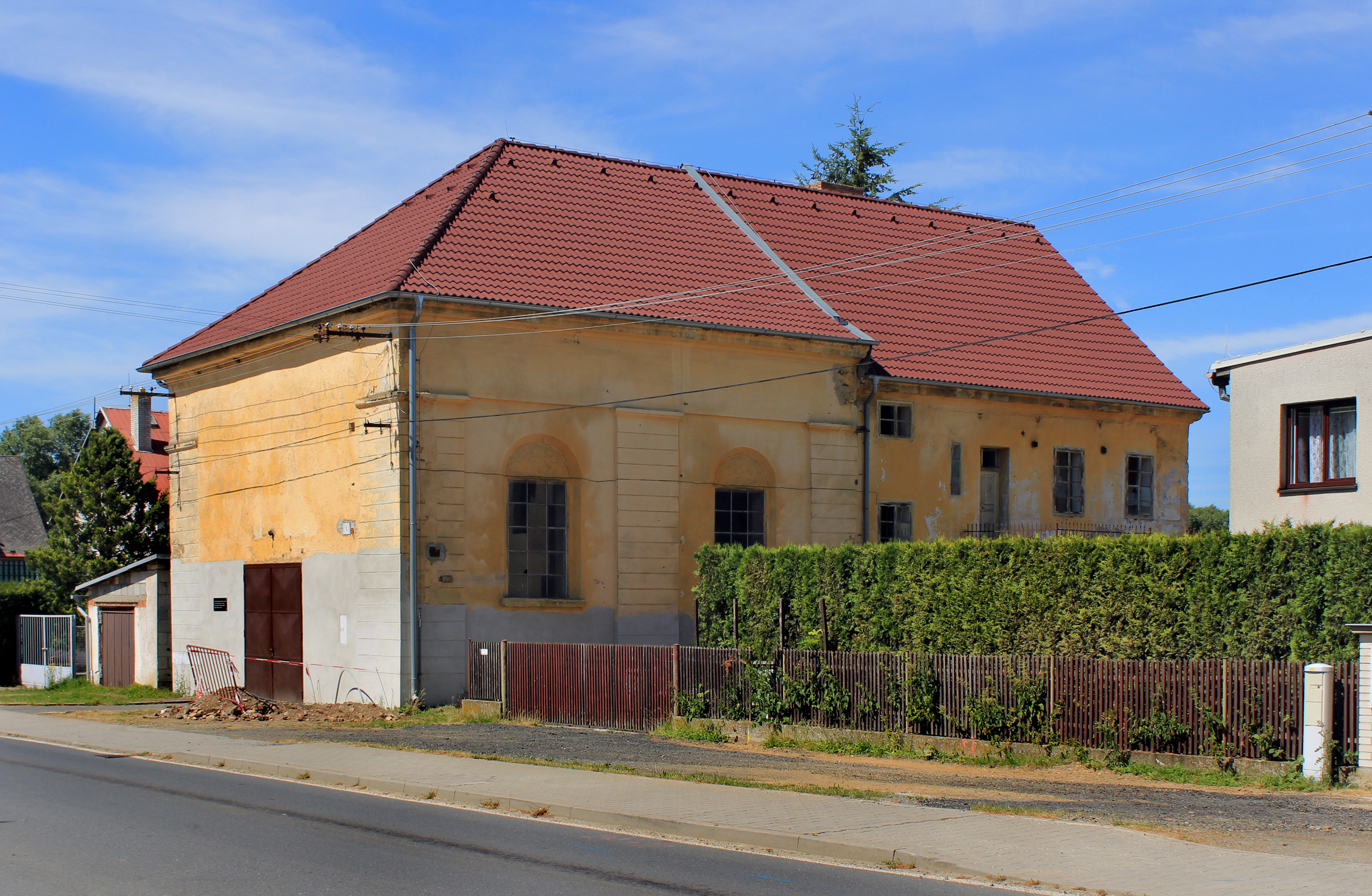 Old synagogue in Meclov, Czech Republic.